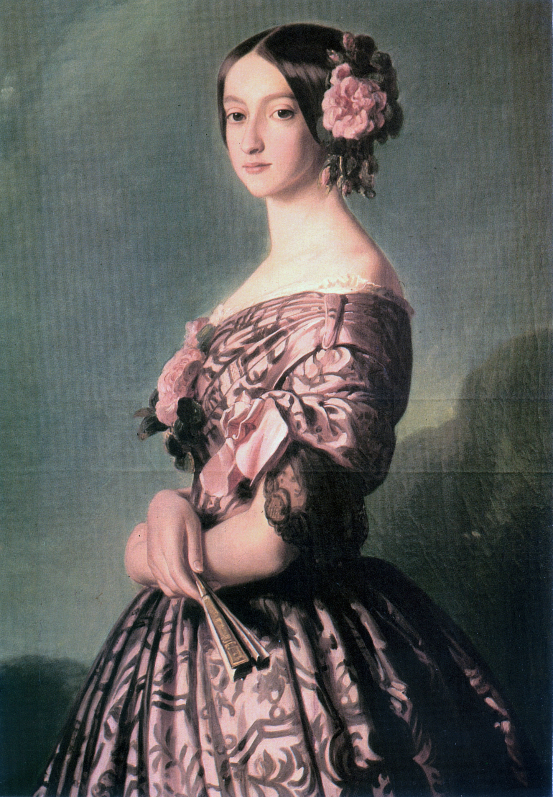 Portrait of Francisca Caroline Gonzaga de Bragança, princesse de Joinville